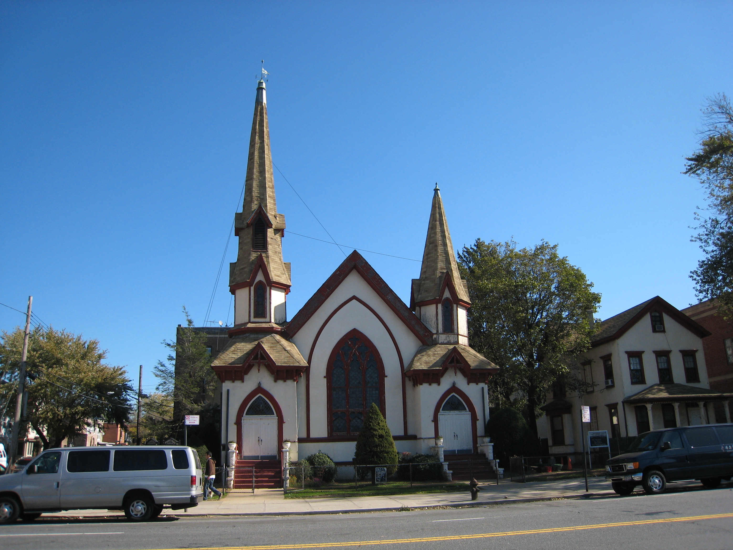 Sheepshead Bay